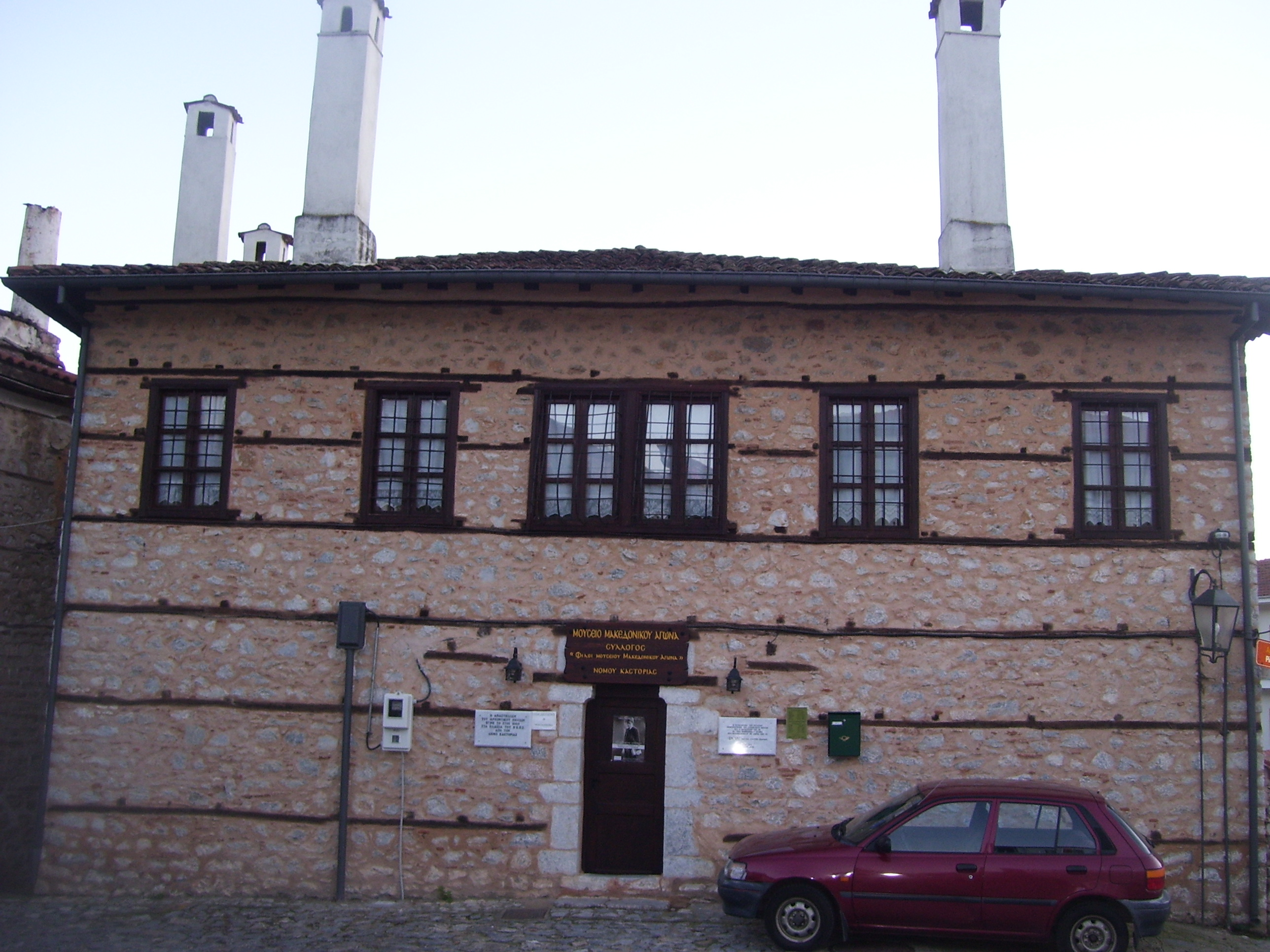 The house of Anastasios Picheon, Kastoria, Greece, today a museum.